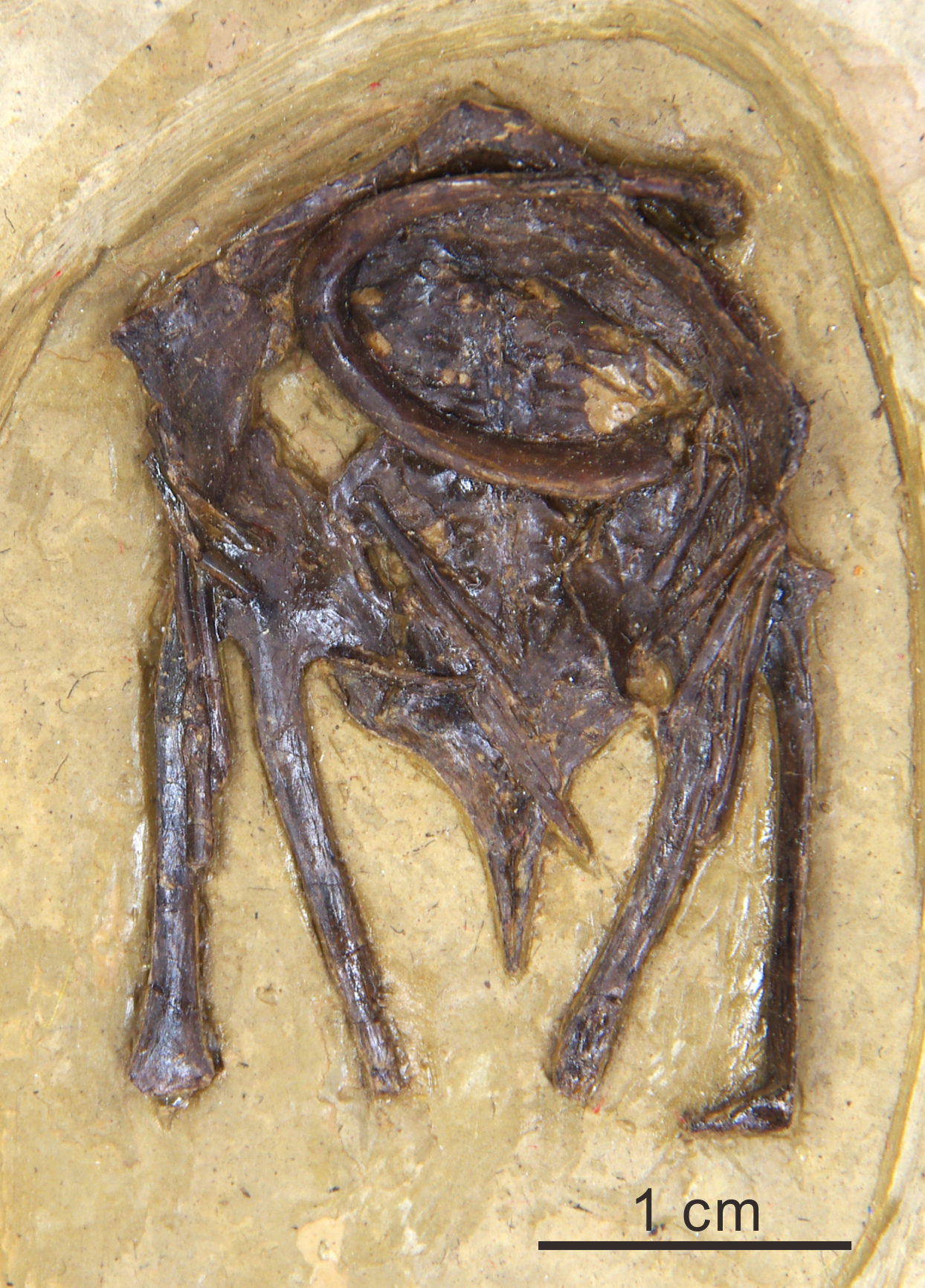 Photograph of Jiuquanornis niu gen. et sp. nov., GSGM-05-CM-021.